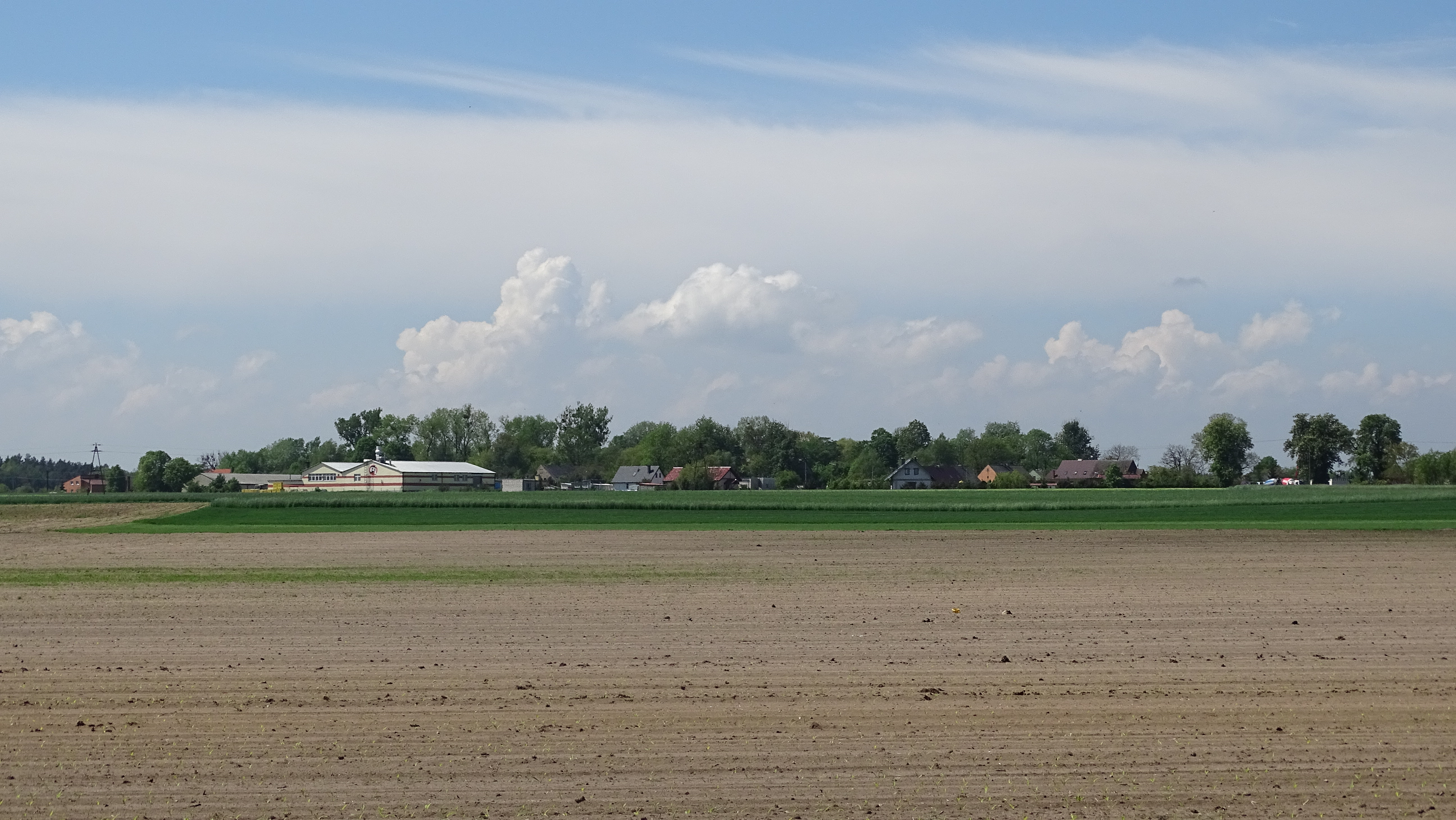 Zbietka, Wągrowiec county, Poland. View on the village.